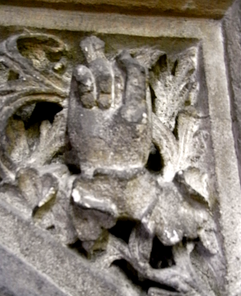 Canting crest of the Poyntz family of Iron Acton in Gloucestershire: A hand clenched,[1] from the French poigne, "fist".[2] Detail from sculpted spandrel above entrance door to the Poyntz Chantry Chapel ("Chapel of Jesus") in the Gaunt's Chapel in Bristol (today known as St Mark's Church, Bristol), built by Sir Robert Poyntz (died 1520), lord of the manor of Iron Acton in Gloucestershire, a supporter of the future King Henry VII at the Battle of Bosworth in 1485, and buried in the Gaunt's Chapel.